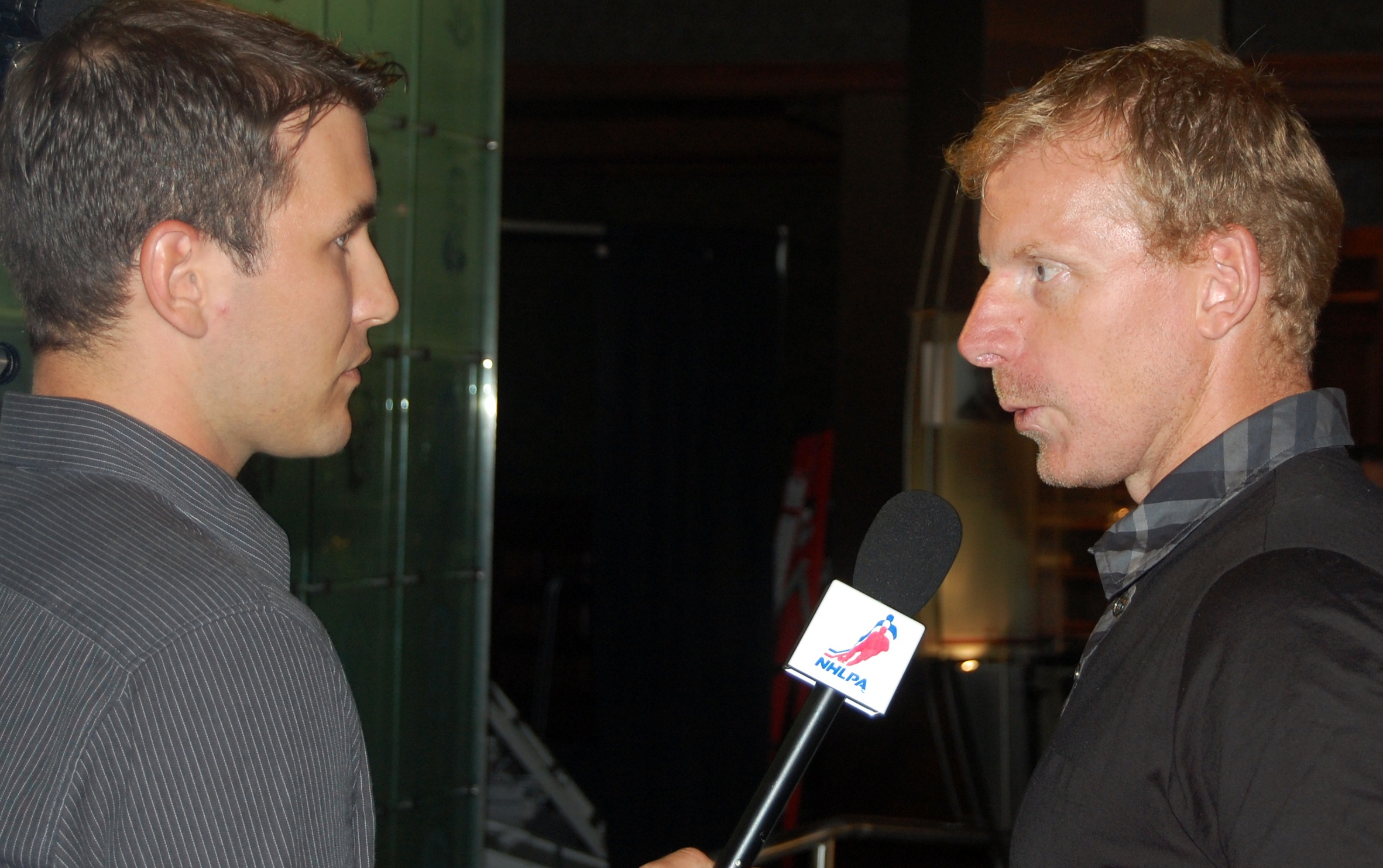 Daniel Alfredsson being interviewed on the first day of the World Hockey Summit at the Hockey Hall of Fame in Toronto, Ontario, Canada.